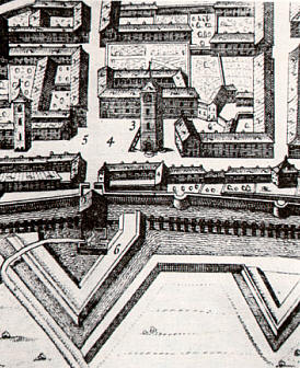 Crescentino – Piazza Vische and its tower (Theatrum Sabaudiae 1682)